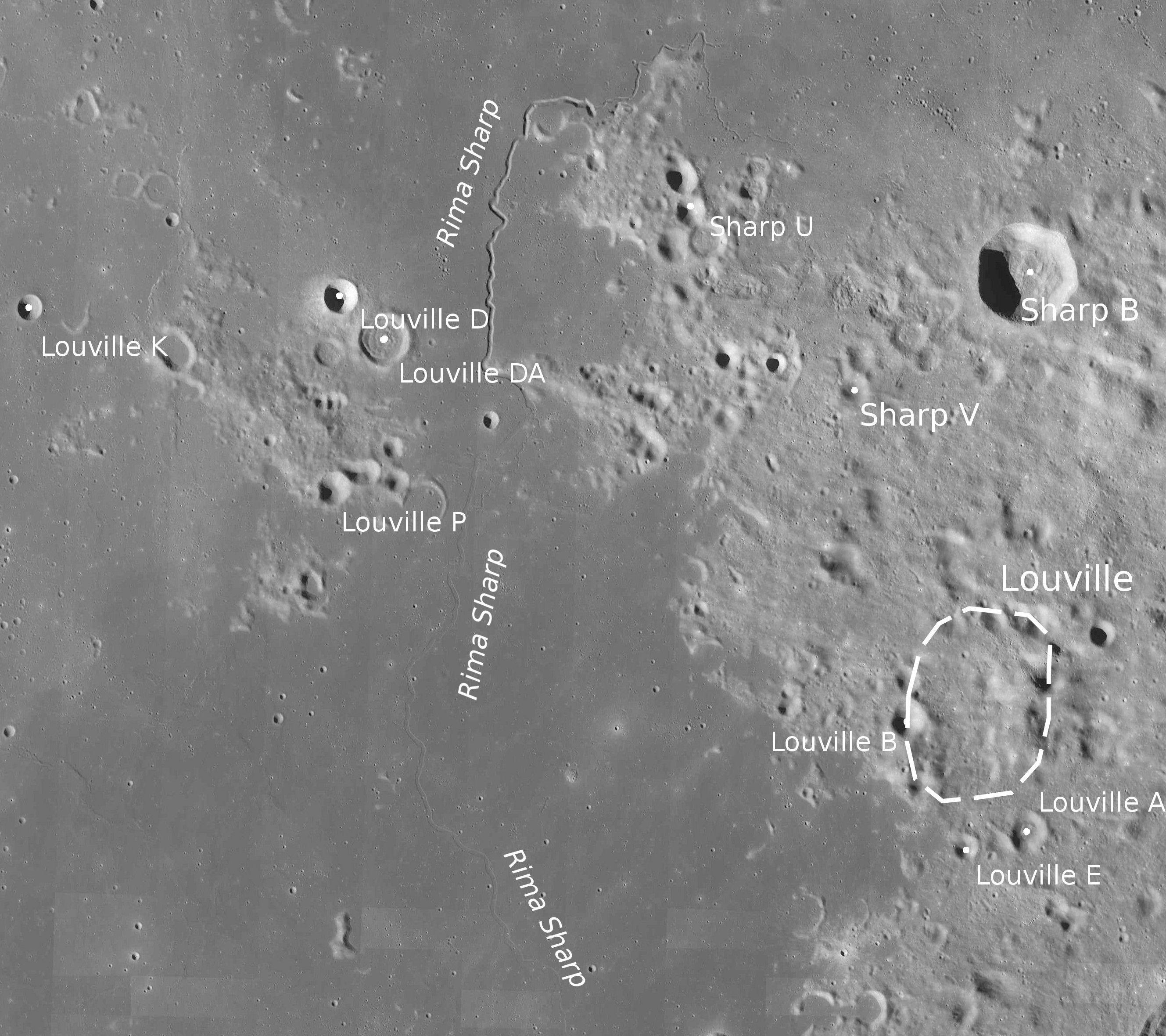 Rima Sharp and crater Louville with satellite features (detail of LRO - WAC global moon mosaic; Mercator projection)